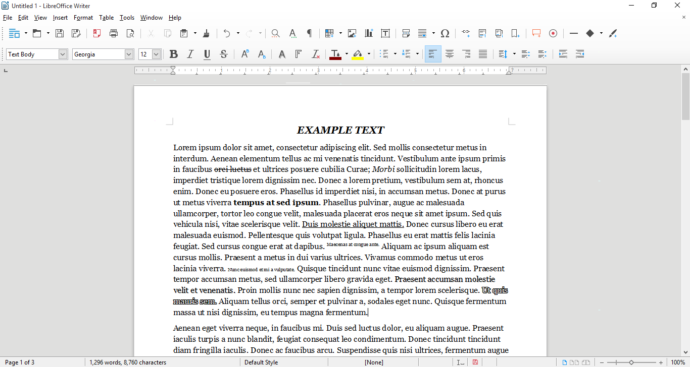 Screenshot of LibreOffice Writer 5.0.0.5.